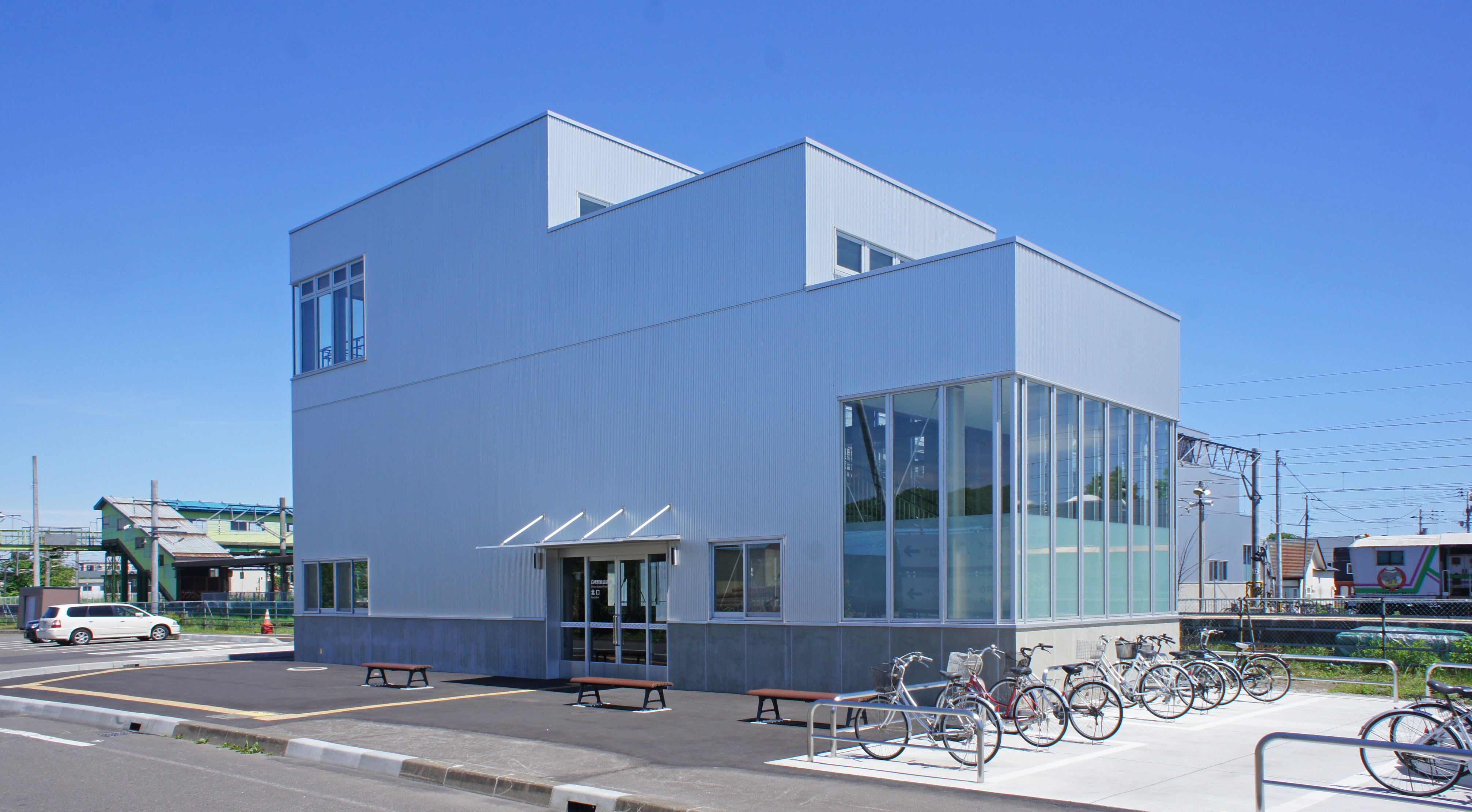 Free Passage (North Exit) of JR Muroran-Main-Line Shiraoi Station. It was put into service on March 14, 2020. Sony NEX-3 + E 18-55mm F3.5-5.6 OSS